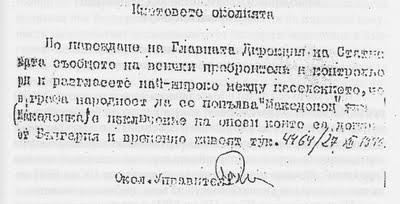 Note for ethnic census in Bulgaria in 1946 with order people in Pirin Macedonia to be counted as "macedonians", during the so called "Culture autonomy of Pirin Macedonia 1944-1948"